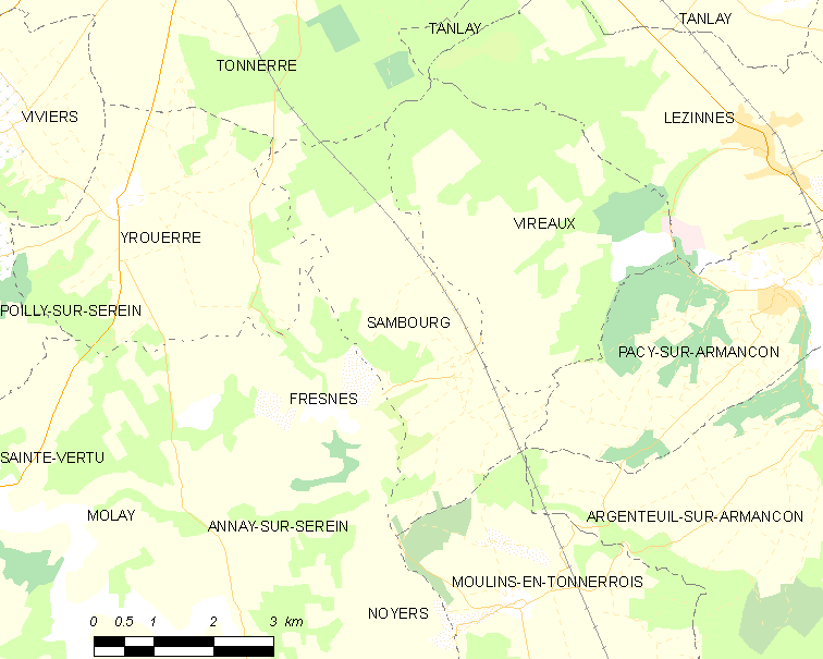 Map of French municipality Sambourg